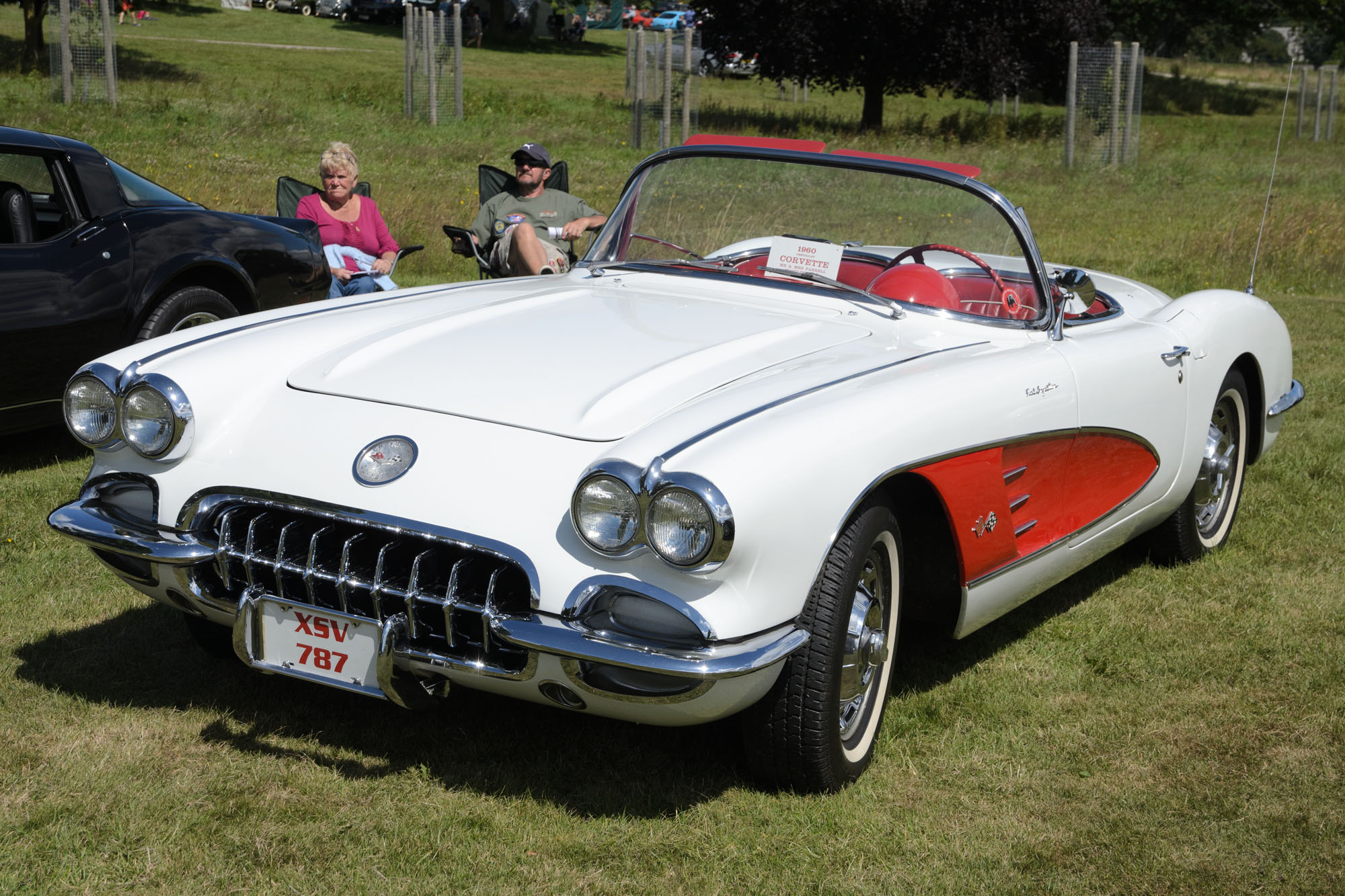 Bodelwyddan Classic Car Show 19/07/2015